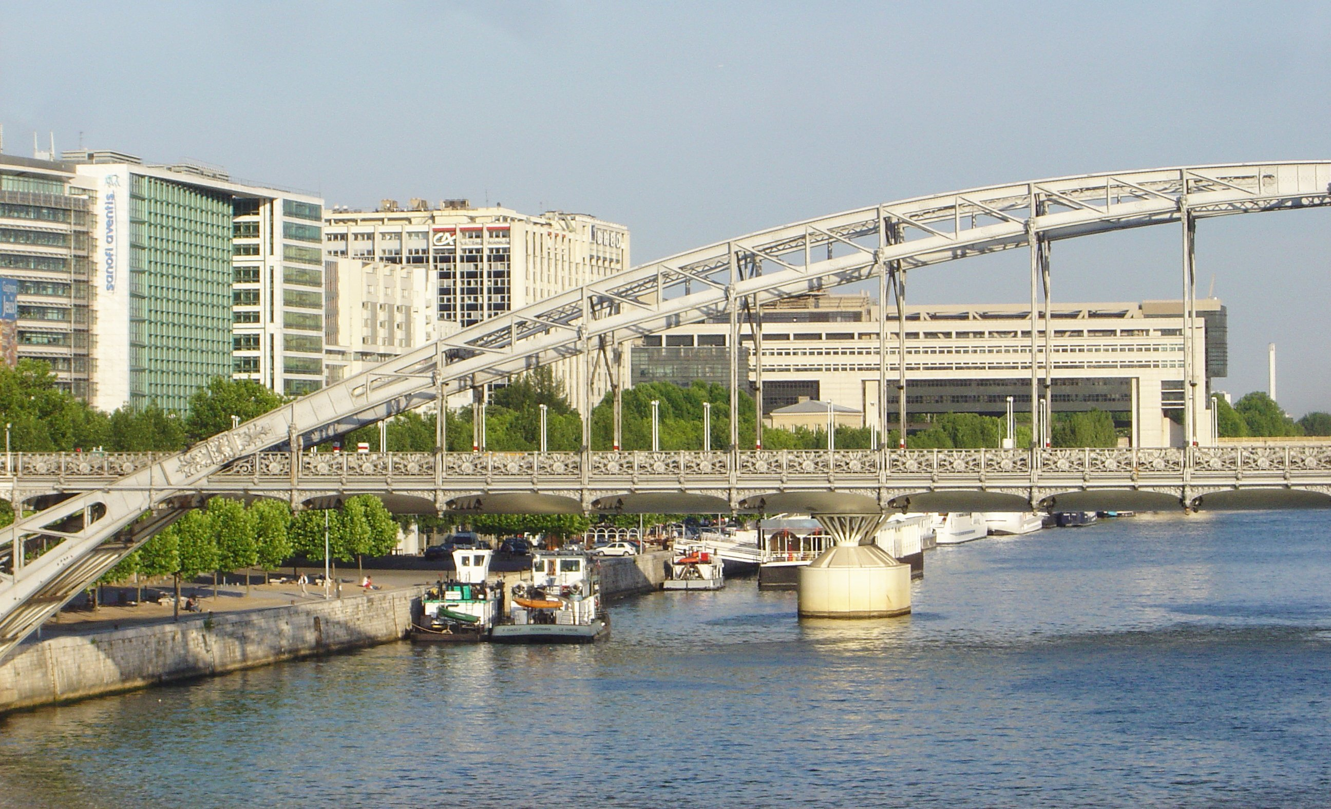 Paris, view to the east from the Pont d'Austerlitz: the Viaduc d'Austerlitz and, behind, the Ministry of Finances at Bercy 2005/6/11